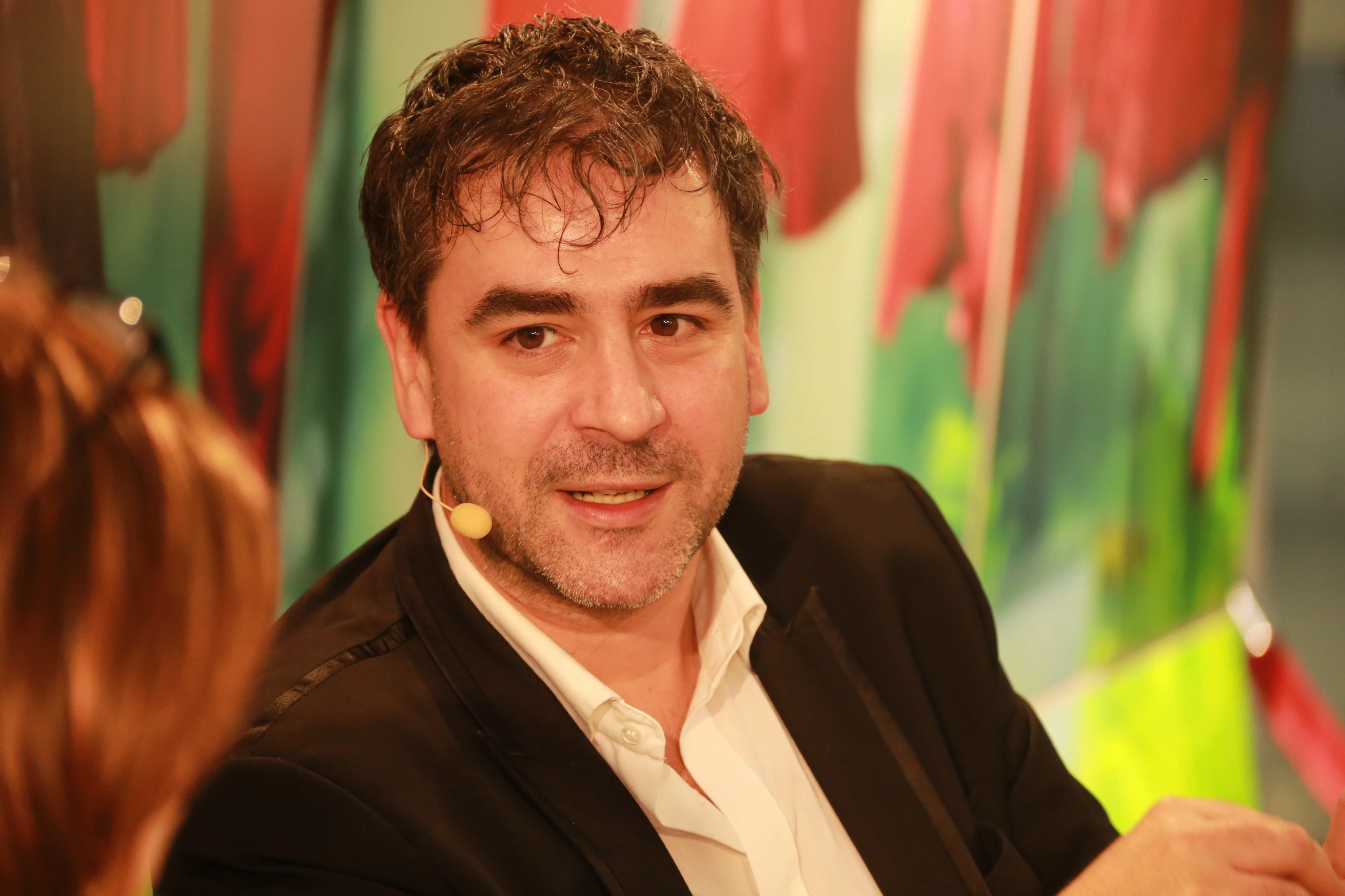 Deniz YücelEesti: Deniz YücelNorsk bokmål: Deniz Yüceld:Q1187856